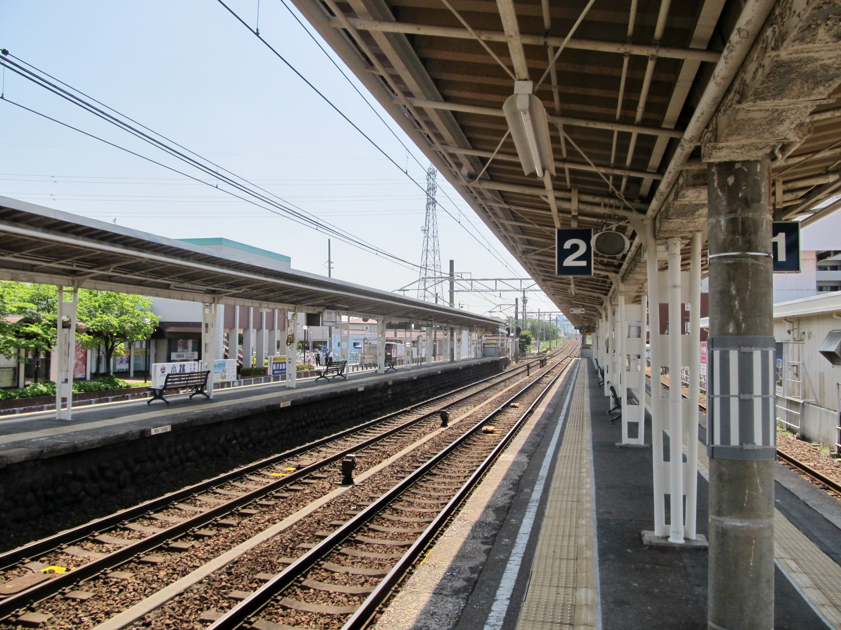 Nagoya Railroad Nagoya Main Line Shin Kiyosu Station Platform